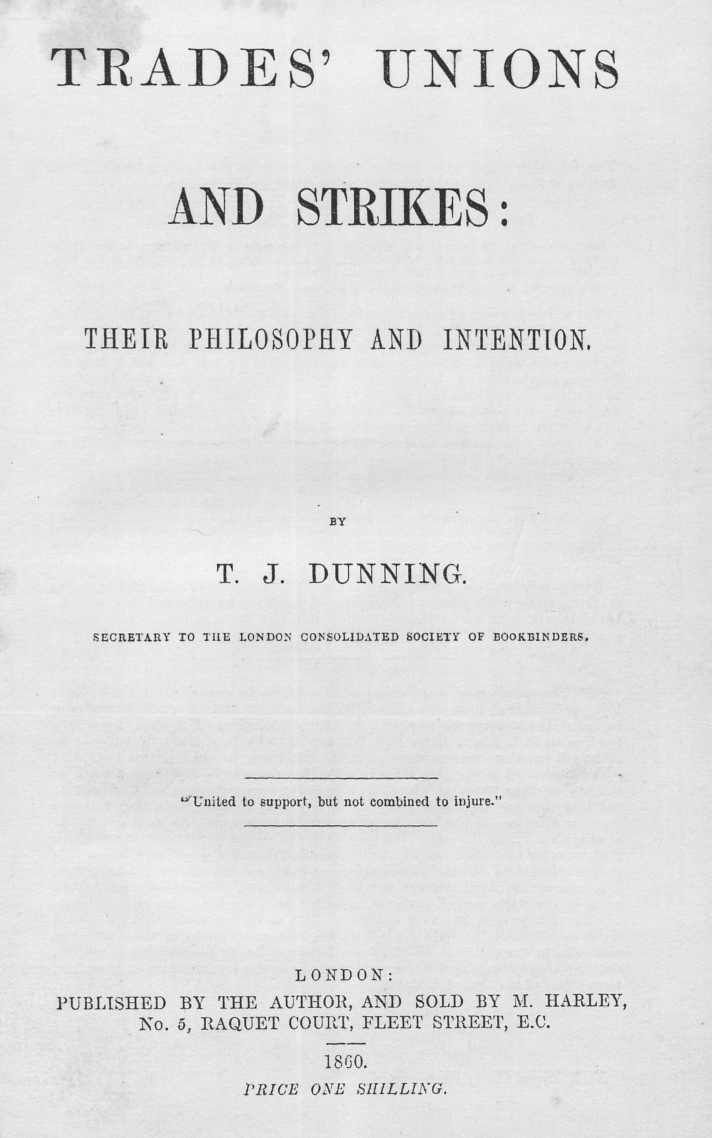 Title page of Trades' unions and strikes: their philosophy and intention (1860) by Thomas Joseph Dunning.